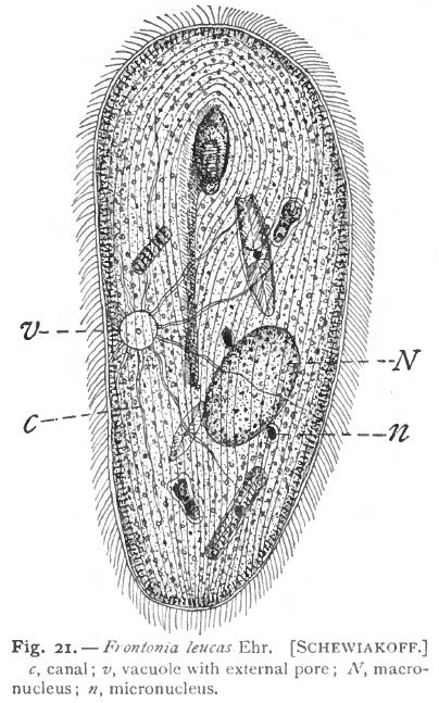 Illustration of Frontonia Leucas, from Gary N. Calkins, drawn by Russian zoologist Schewiakoff